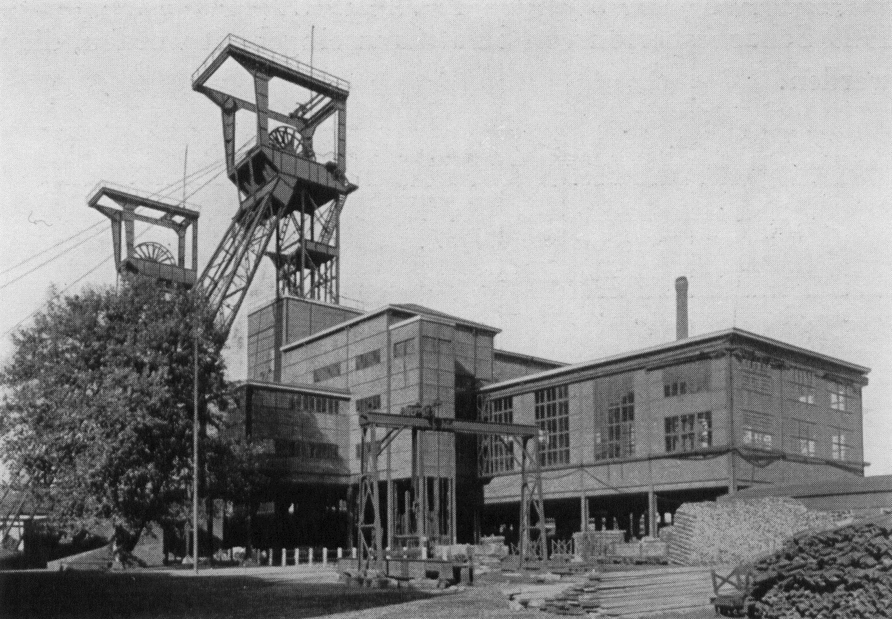 Zeche Zollverein Shaft 4 and 11, 1930